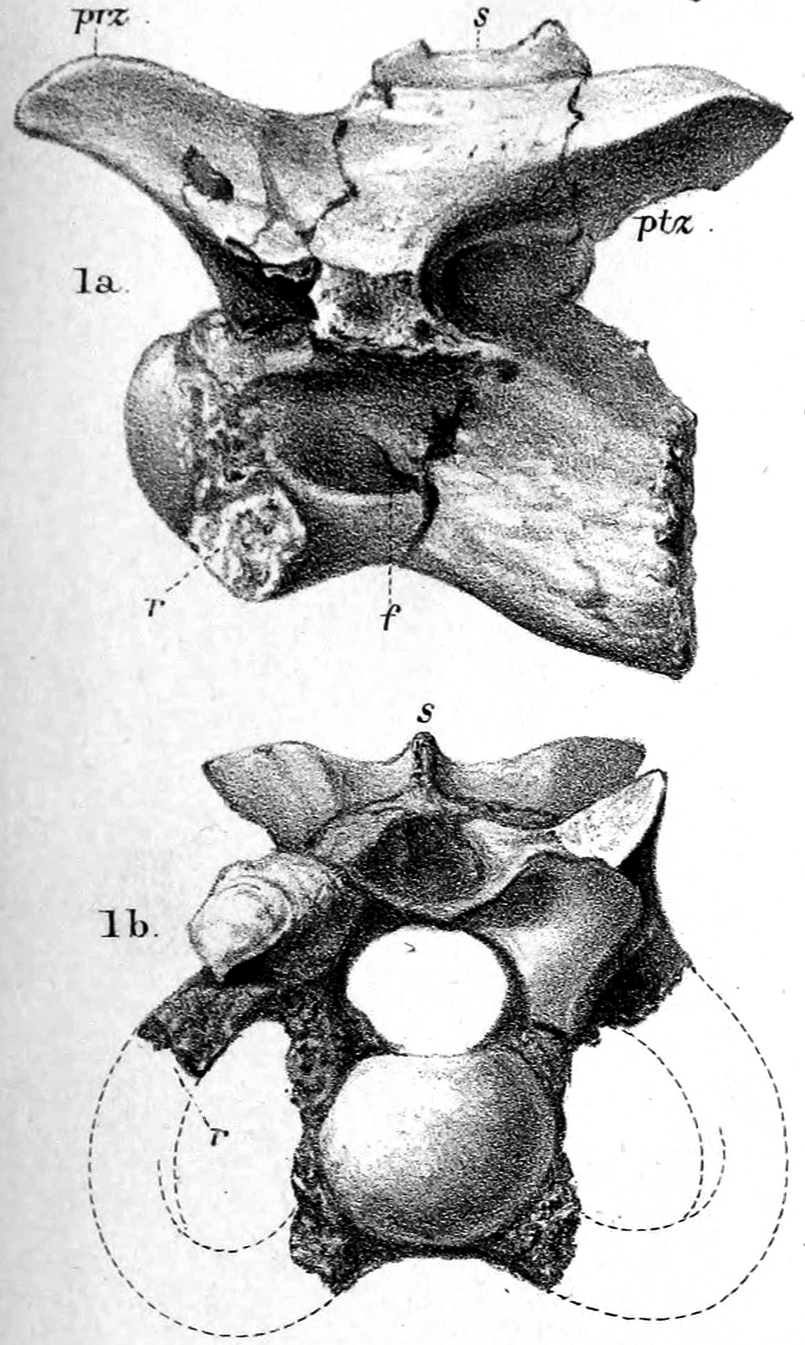 Cervical vertebra of Calamosaurus foxi